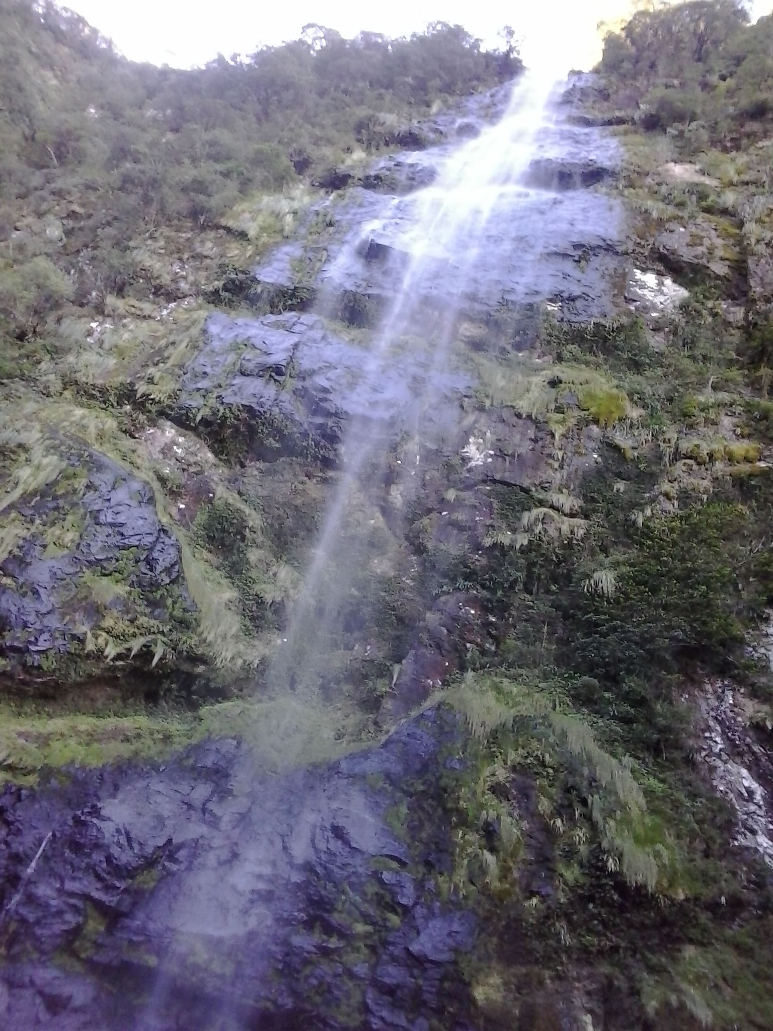 Sinos River in Brazil have this waterfall, 120m